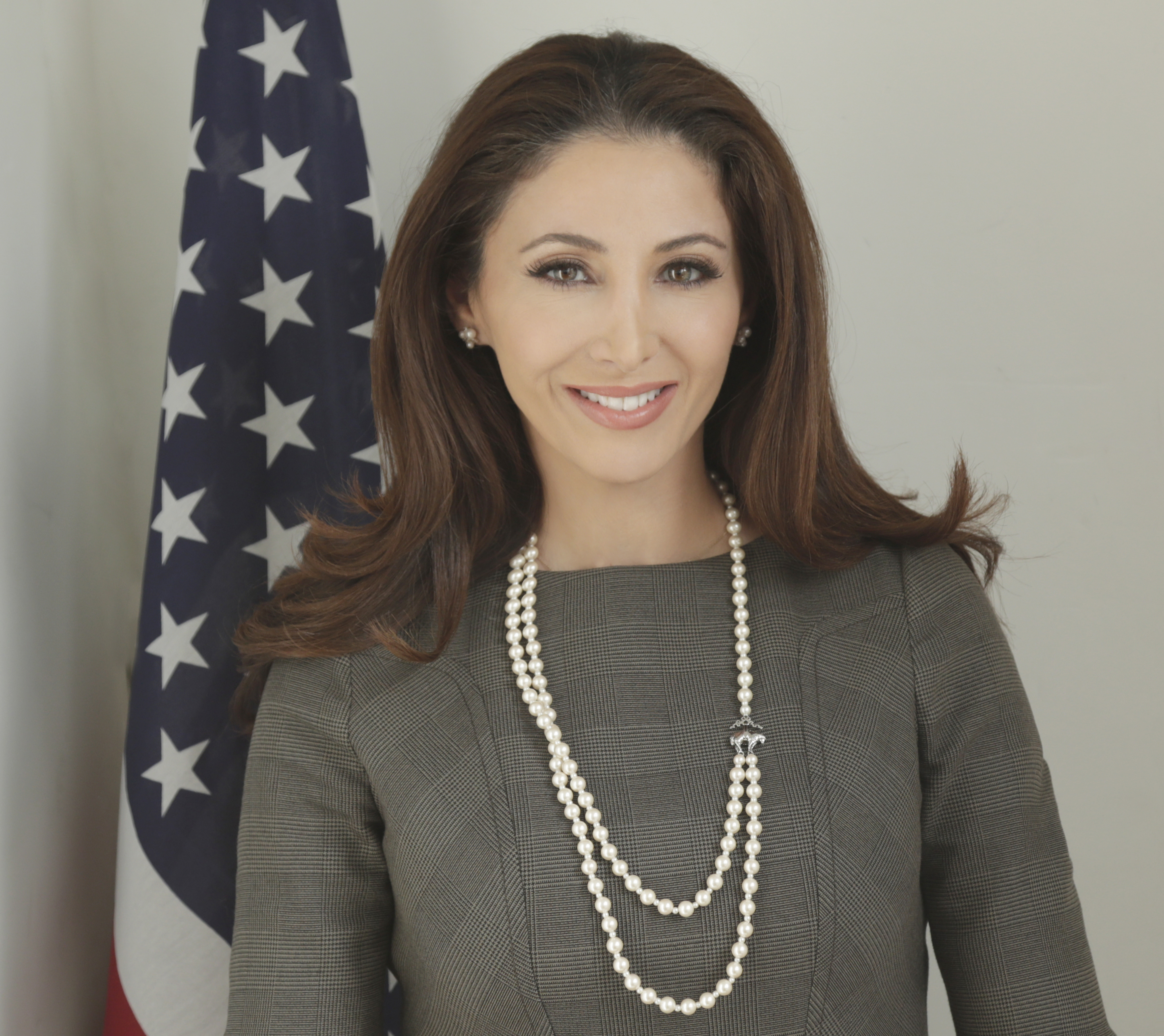 Dr. Julia Nesheiwat serves as Florida's first Chief Resilience Officer appointed by Governor Ron DeSantis.